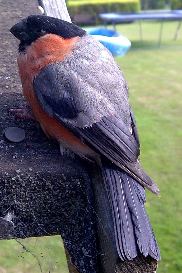 Common Bullfinch (Pyrrhula pyrrhula). Taken in Elstree, London.